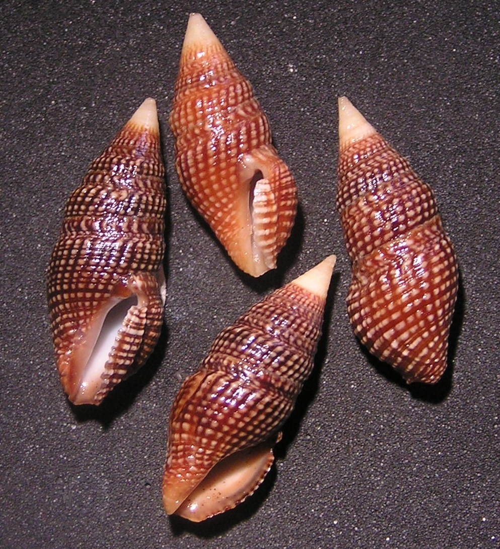 Crassispira cerithina (Anton, 1838) (synonym: Turridrupa cerithina (Anton, 1838) ) ; a turrid shell in the family Turridae; Philippines